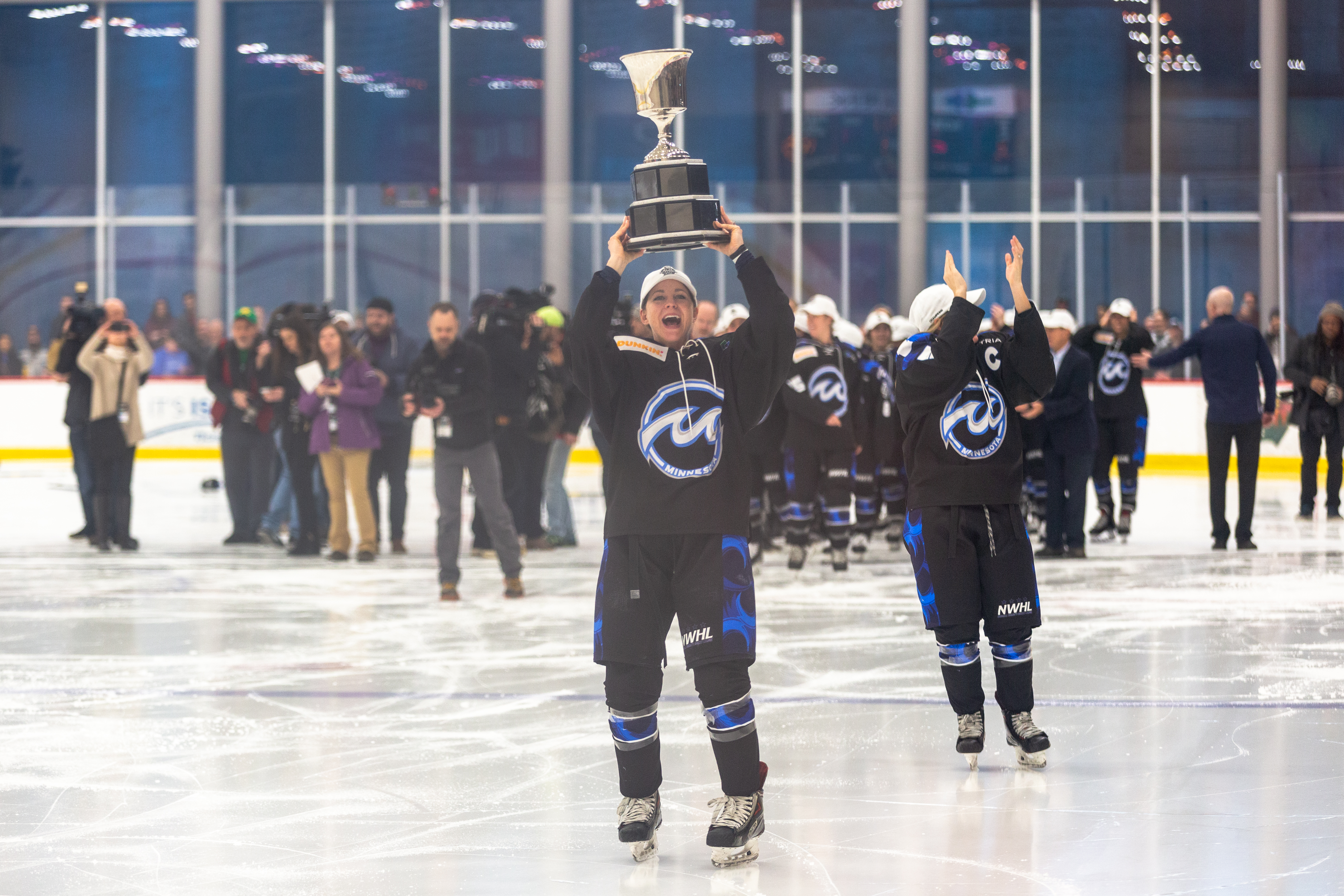 In their final game of the season, the Minnesota Whitecaps won in overtime to beat the Buffalo Beauts 2-1 and to capture the Isobel Cup for the 2018-19 inaugural season of the National Women’s Hockey League.